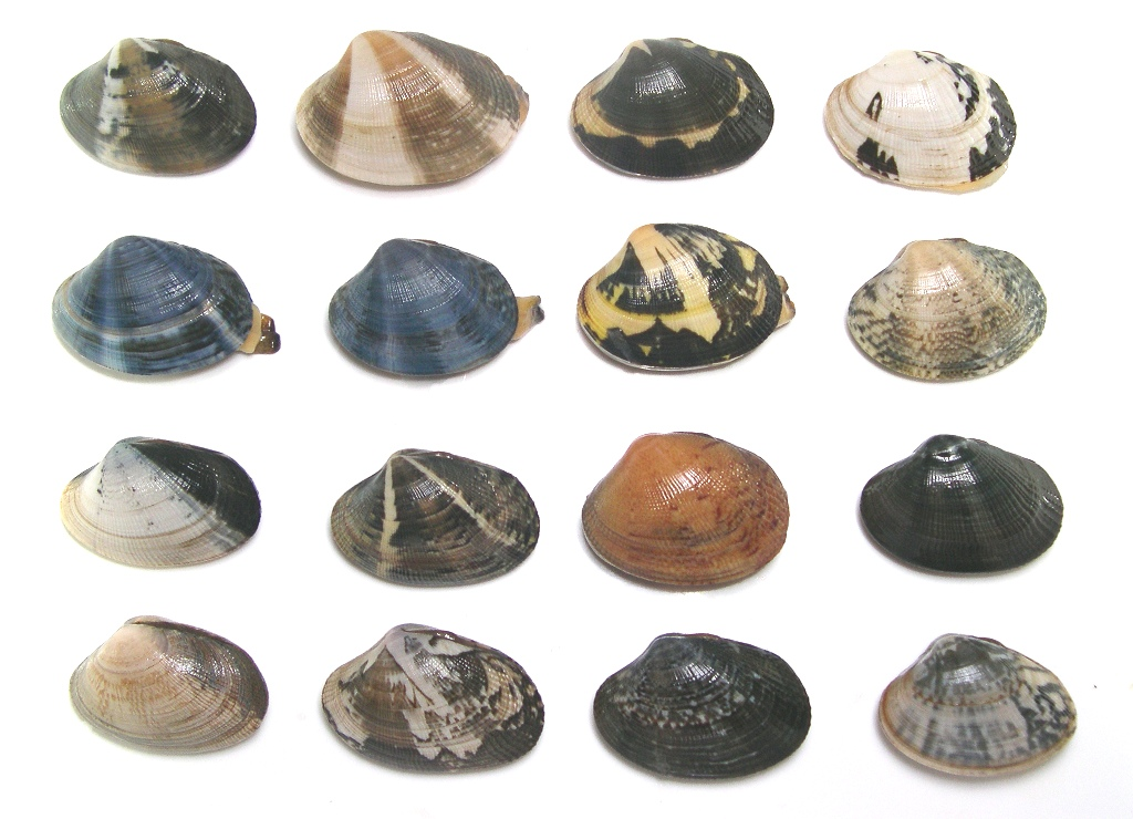 en : Ruditapes philippinarum (or Tapes (Ruditapes) philippinarum or Tapes philippinarum or Venerupis (Ruditapes) philippinarum) (A.Adams et Reeve, 1850) (Bivalvia: Heterodonta: Veneridae) harvested in Ise Bay, Mie Prefecture, Honshū Island, Japan. ja : 伊勢湾で収穫されたアサリ（二枚貝綱：異歯目：マルスダレガイ科）。